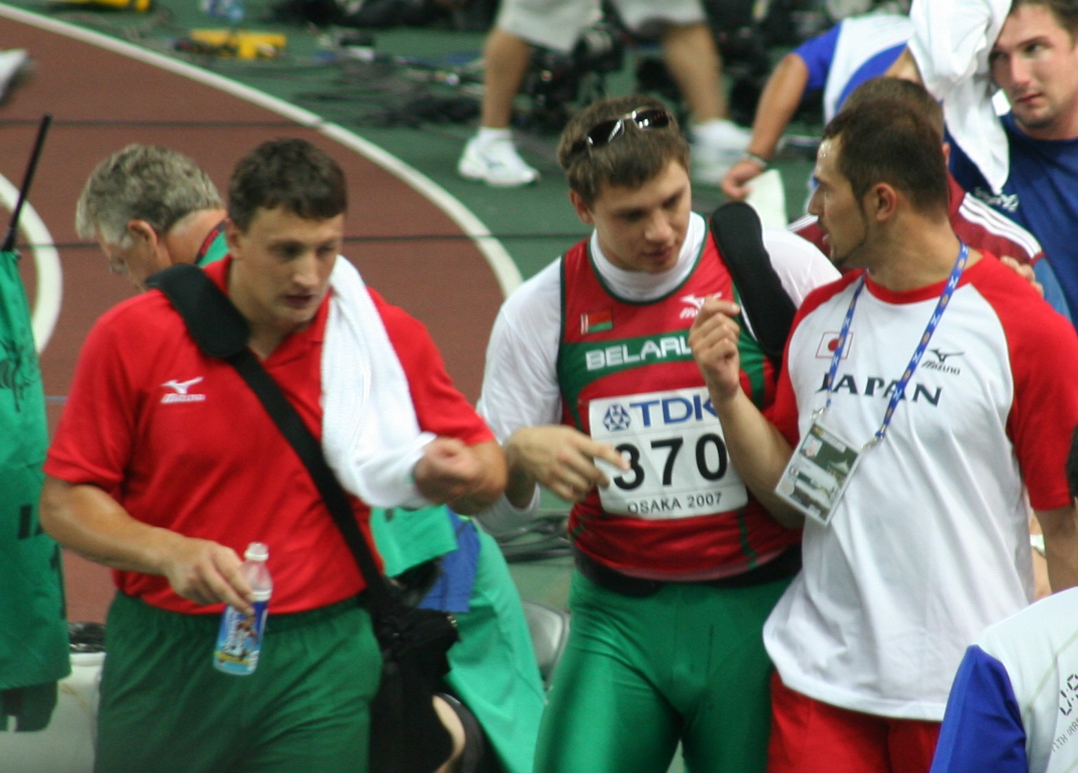 World Athletics Championships 2007 in Osaka - Hammer Throw Winner Ivan Tsikhan (left), his fellow countryman Vadim Devyatovskiy, and Koji Murofushi (right)